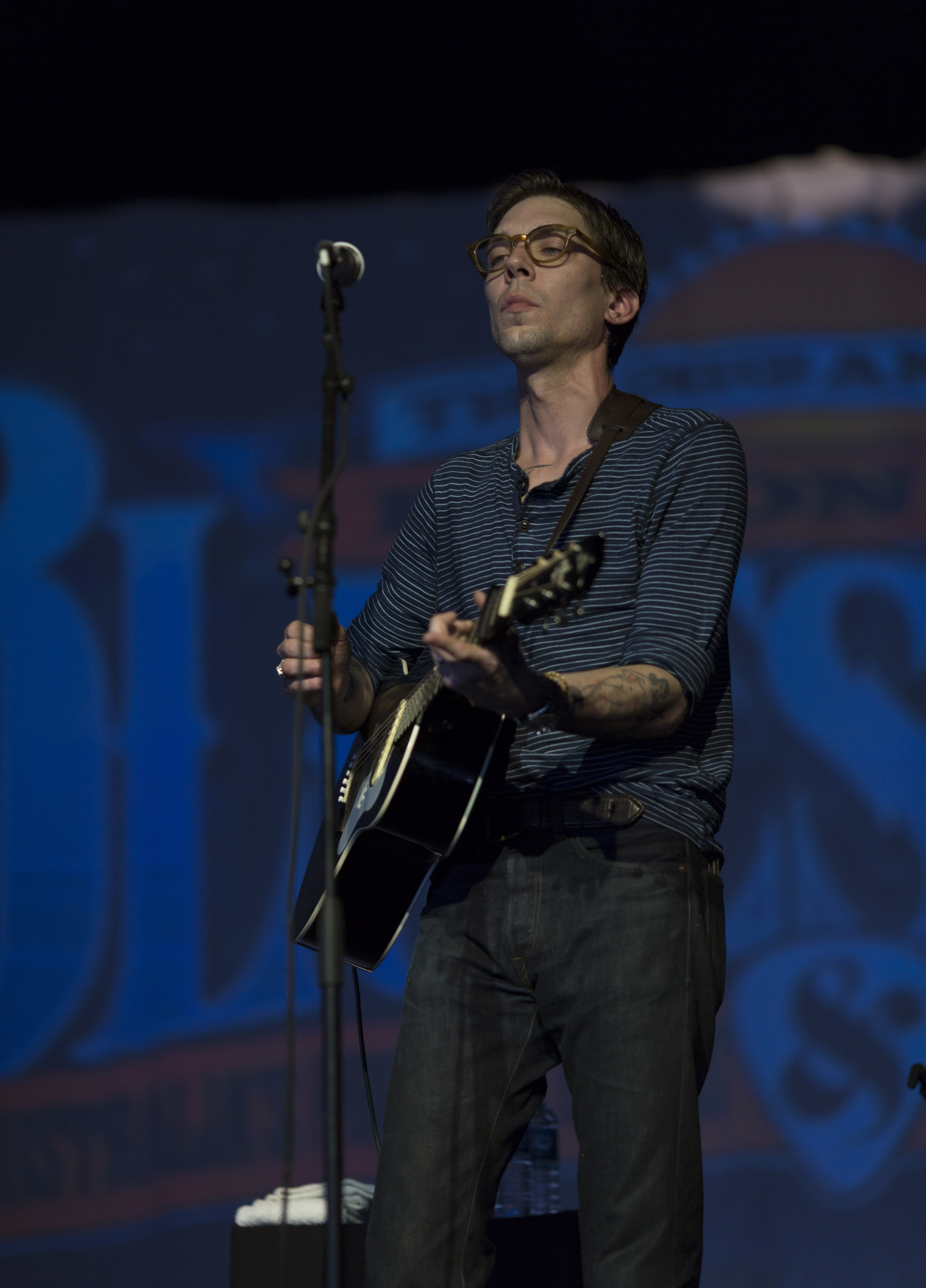 Byron Bay Bluesfest, 2015